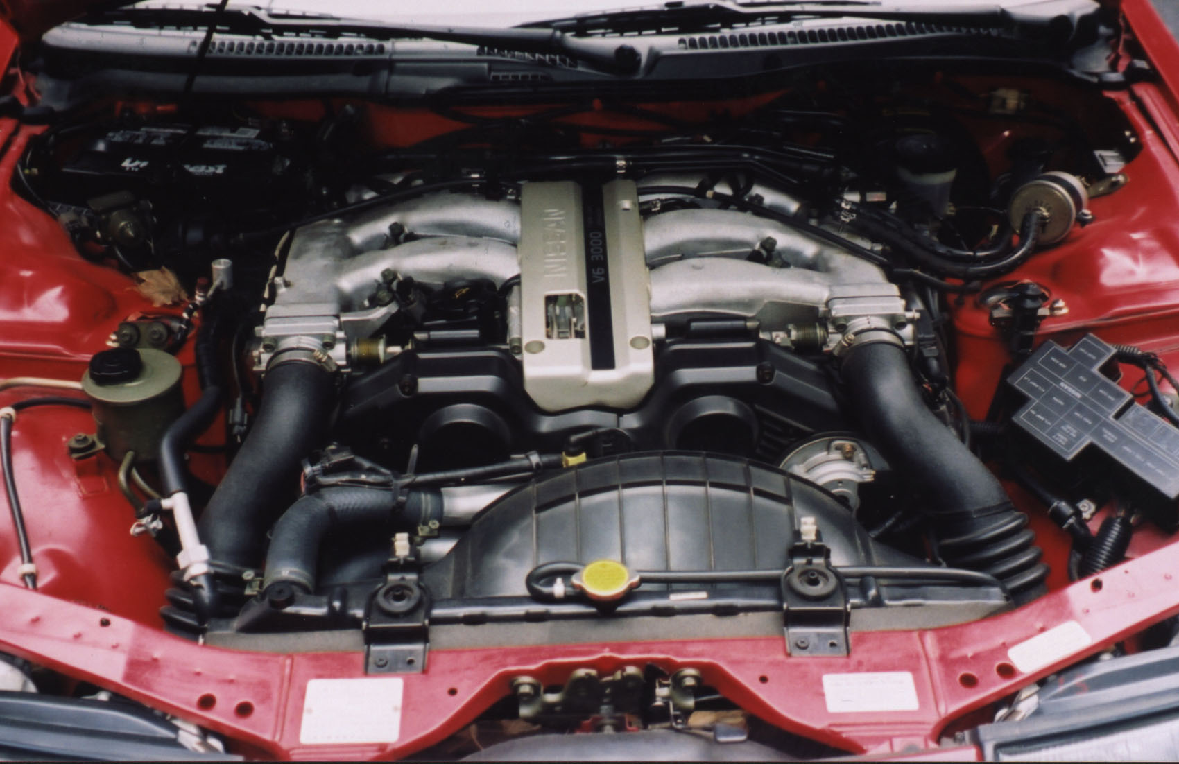 1990 Nissan 300ZX Engine - Nomally Aspired